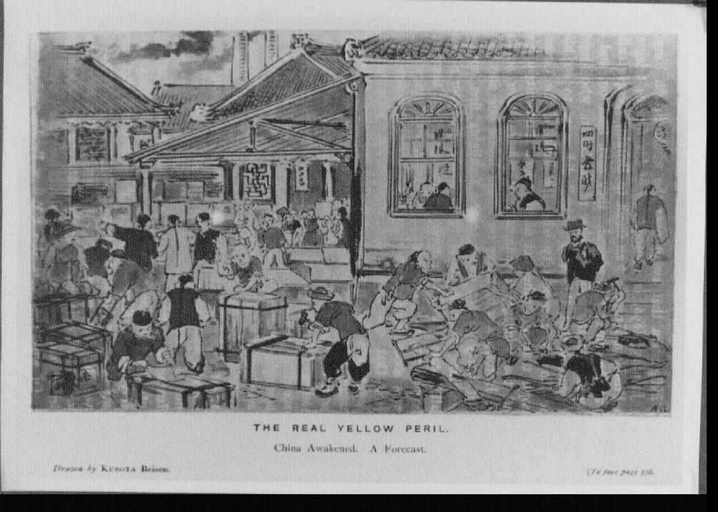 The real yellow peril. China awakened. A forecast.